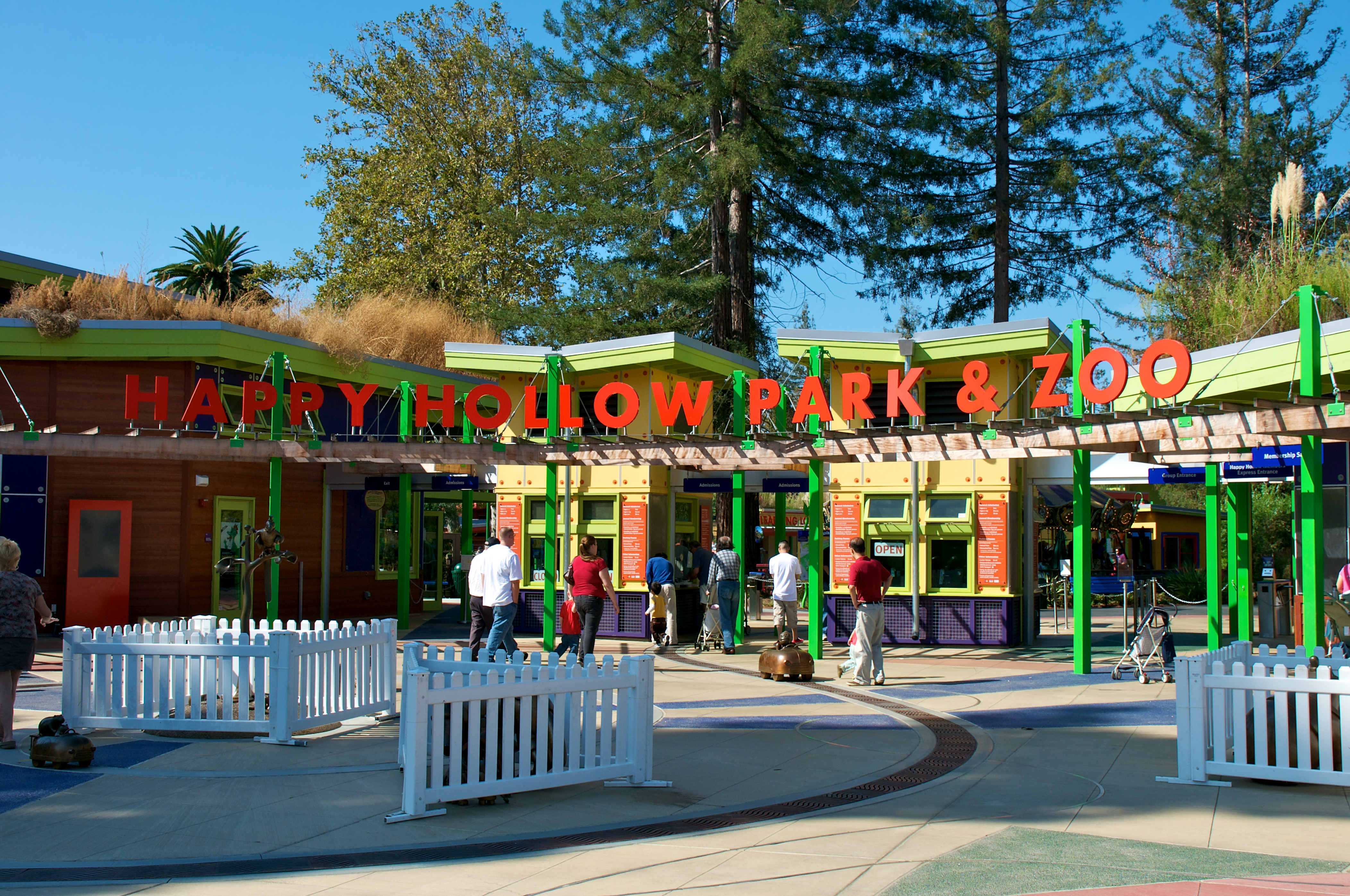 The entrance to Happy Hollow Park & Zoo, San José, California, USA.